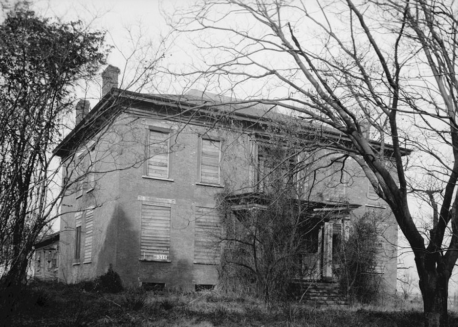 William Winston House, North Commons Street, Tuscumbia (Colbert County, Alabama) cropped